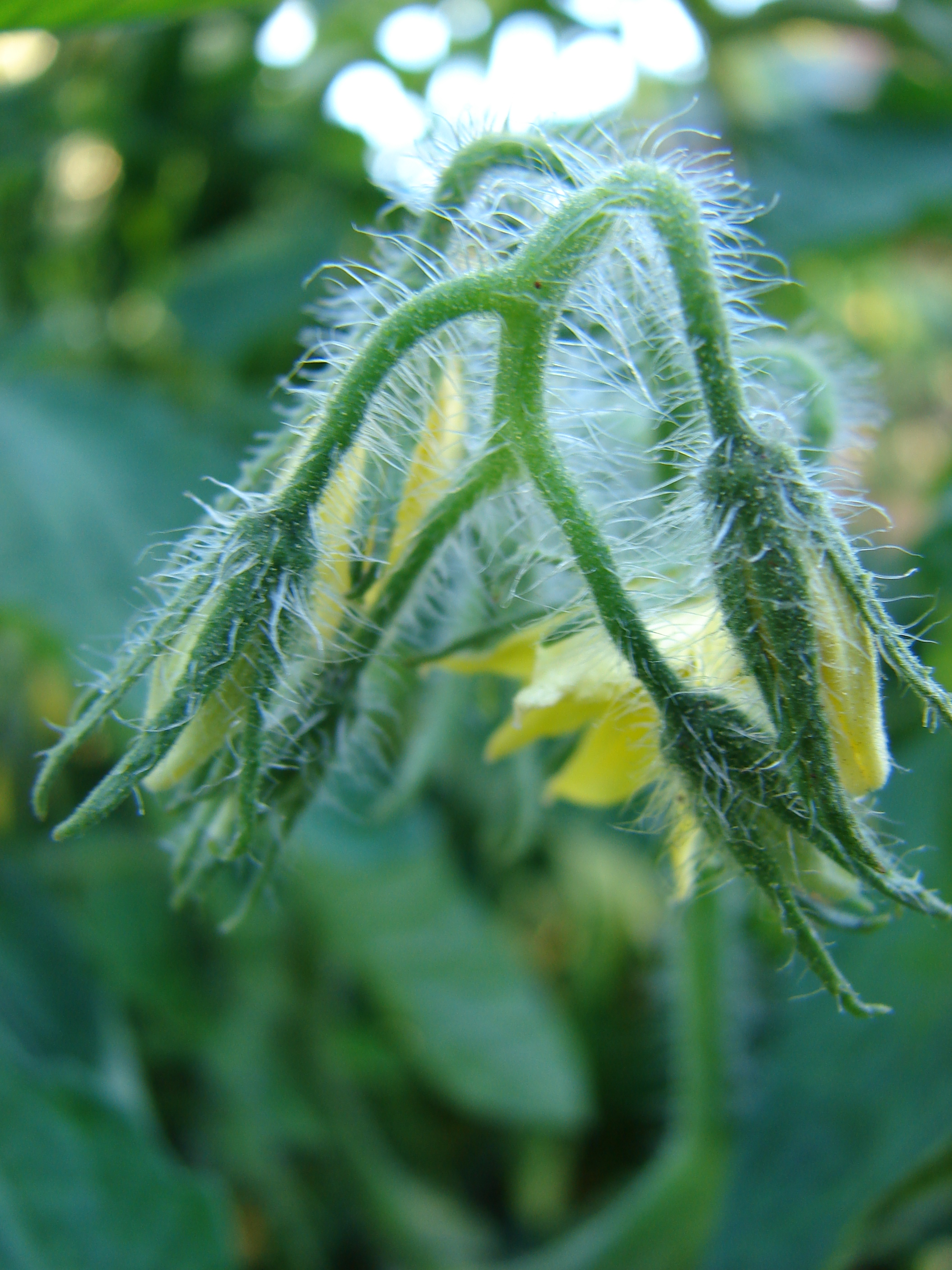 Solanum lycopersicum var. lycopersicum (flowers). Location: Maui, Makawao